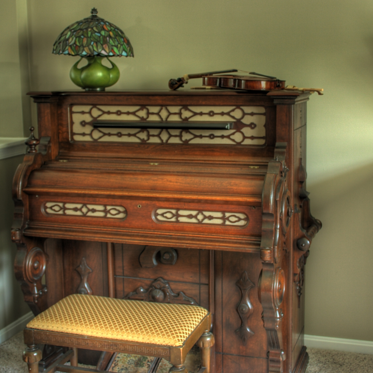 Pump organ made by Estey & Co. in Brattleboro, Vermont. Violin is a Stradivarius copy from the 1700's 3-exposure HDR tone mapped